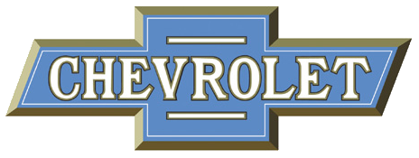 The first Chevrolet "bowtie" logo, released in 1913.